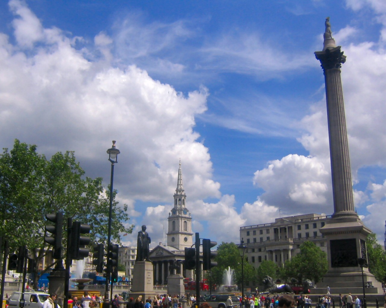 Trafalgar Square in London, looking north-east